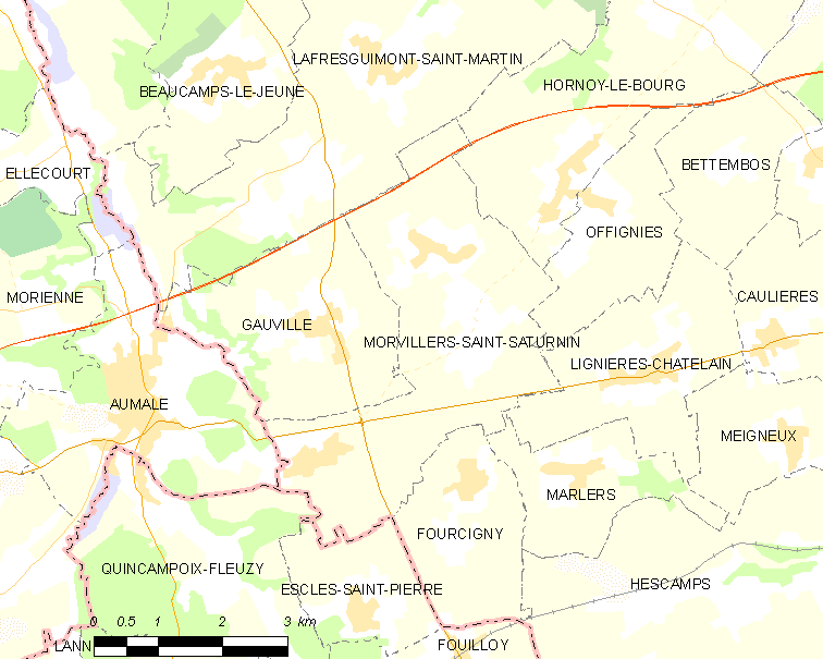 Map of French municipality Morvillers-Saint-Saturnin